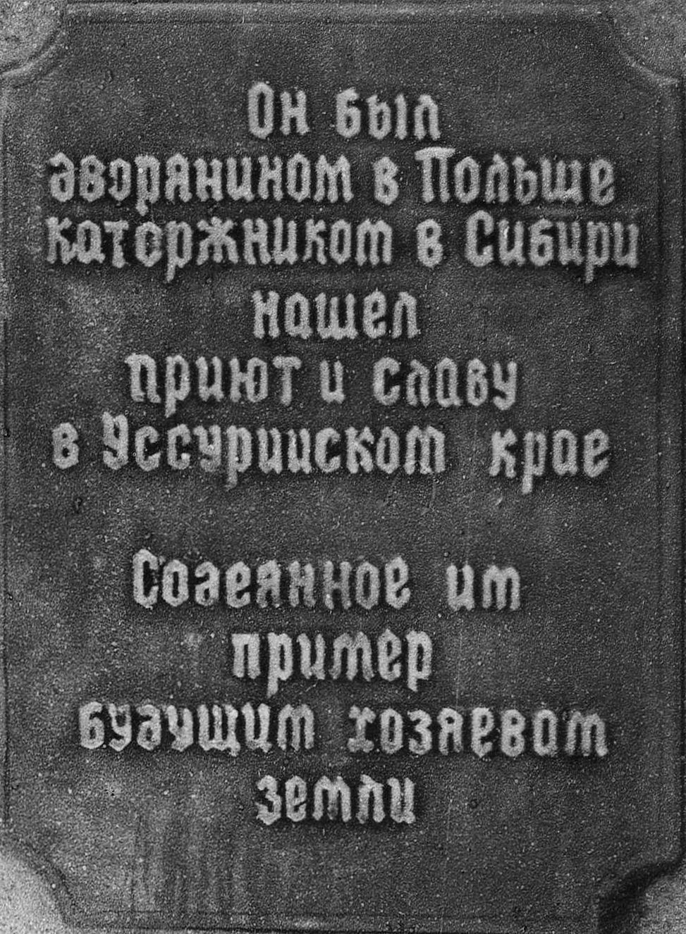 Inscription on Monument of Michał Jankowski Bezvervehovo/Sidemi Russia